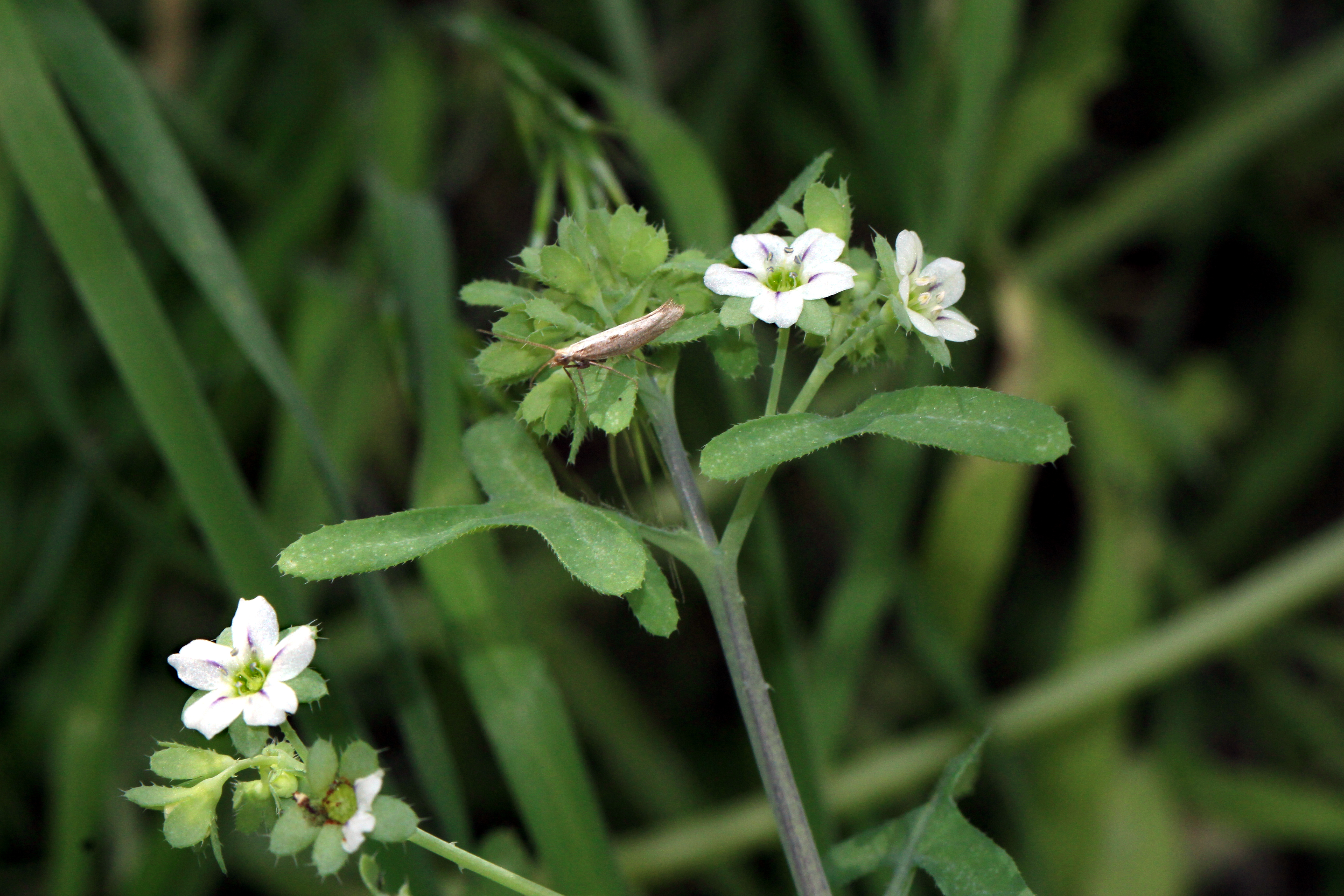 White Fiesta Flower Unidentified Trichoptera Identification by: Linda Edwards and Vern Benhart Viewpoint location: Dry wash west of Godde Hill Road, 150 m north of Hacienda Ranch Road; Lancaster, California Viewpoint elevation: 951 meter (3120 ft) Location source: Garmin GPSmap 60CSx Location Datum: WGS84